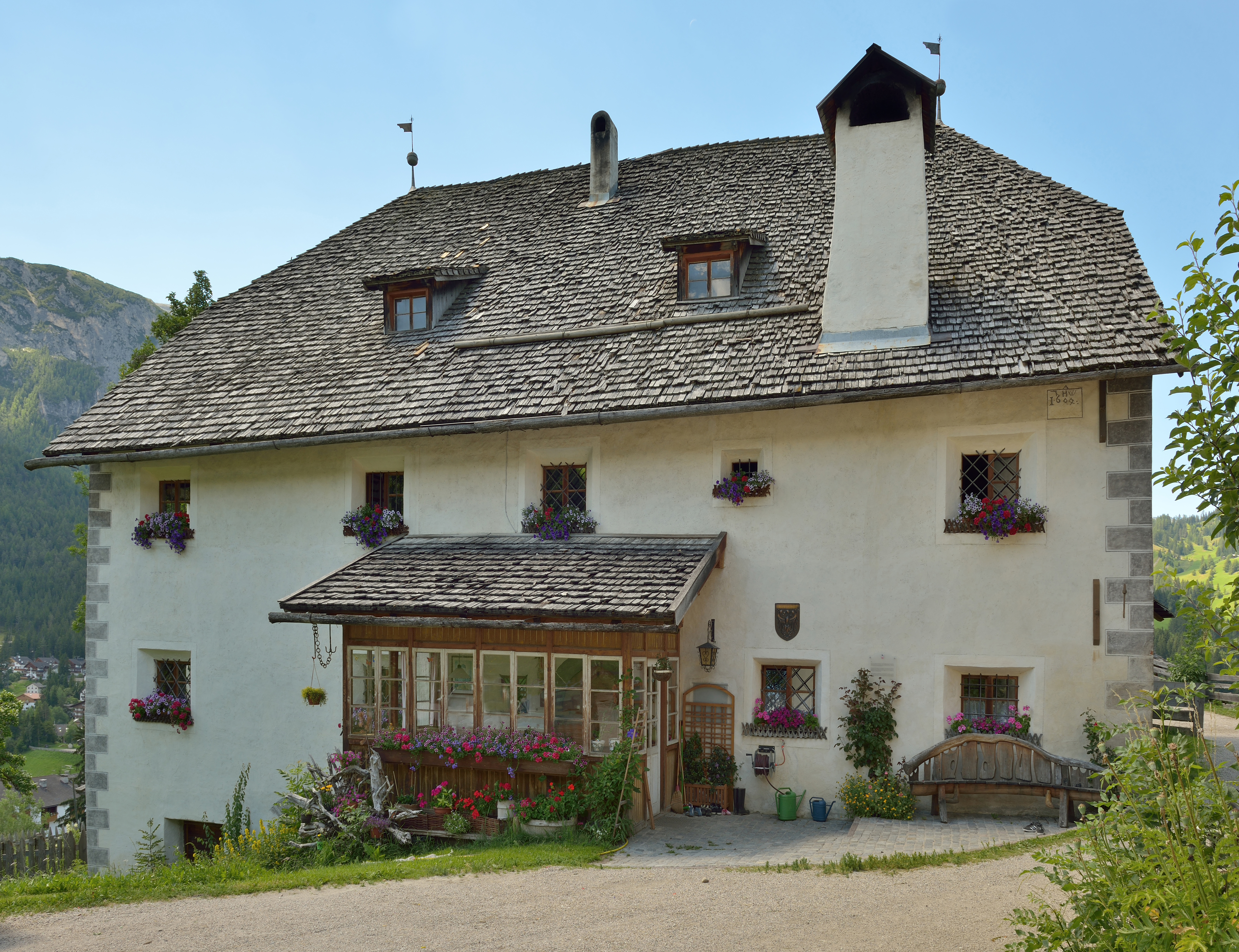 Manor "Colz" in San Linert